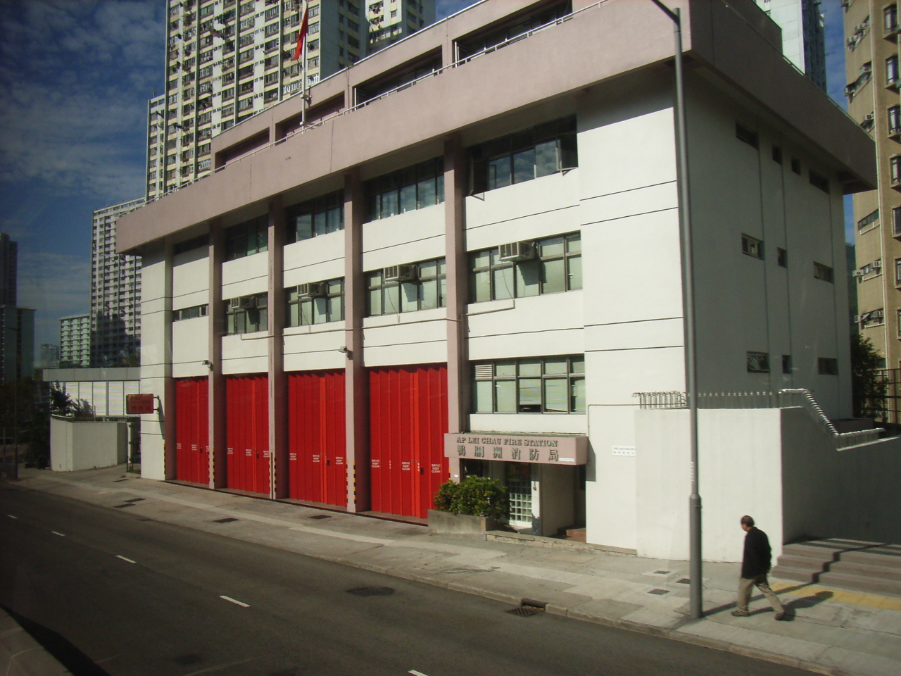 Ap Lei Chau Fire Station, 300 Ap Lei Chau Bridge Road, Hong Kong Photographer:User:Apade1872